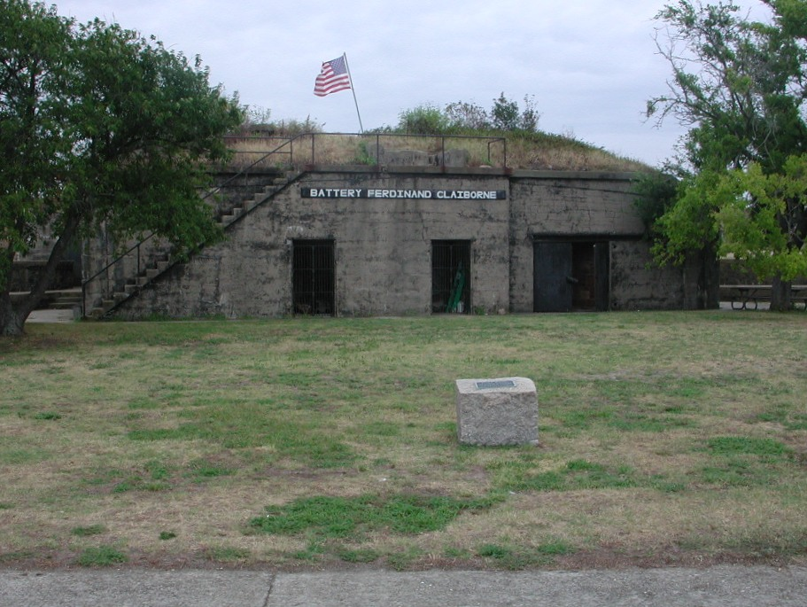 Photo by M. W. Grimes